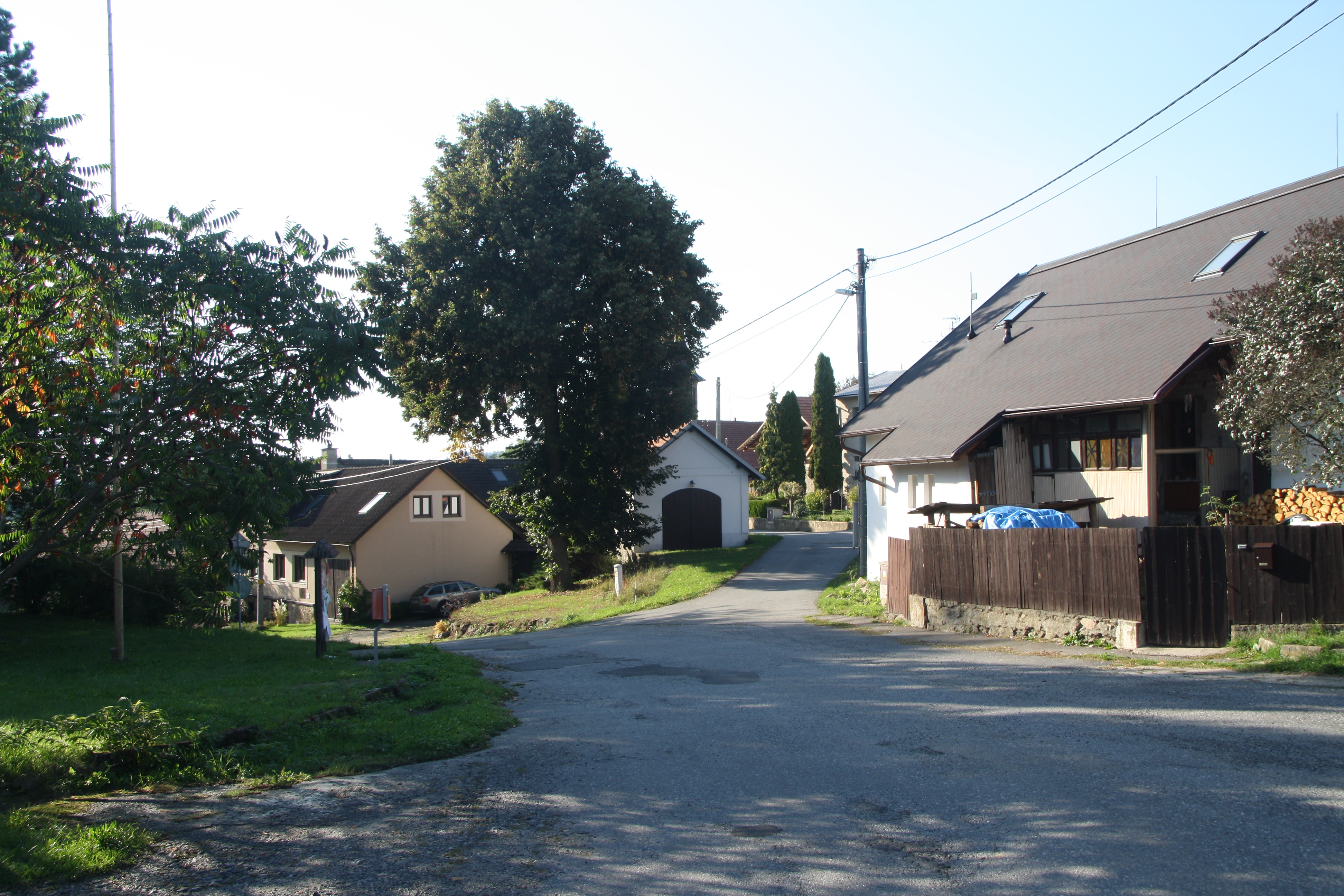 Center of Račice, Žďár nad Sázavou District.